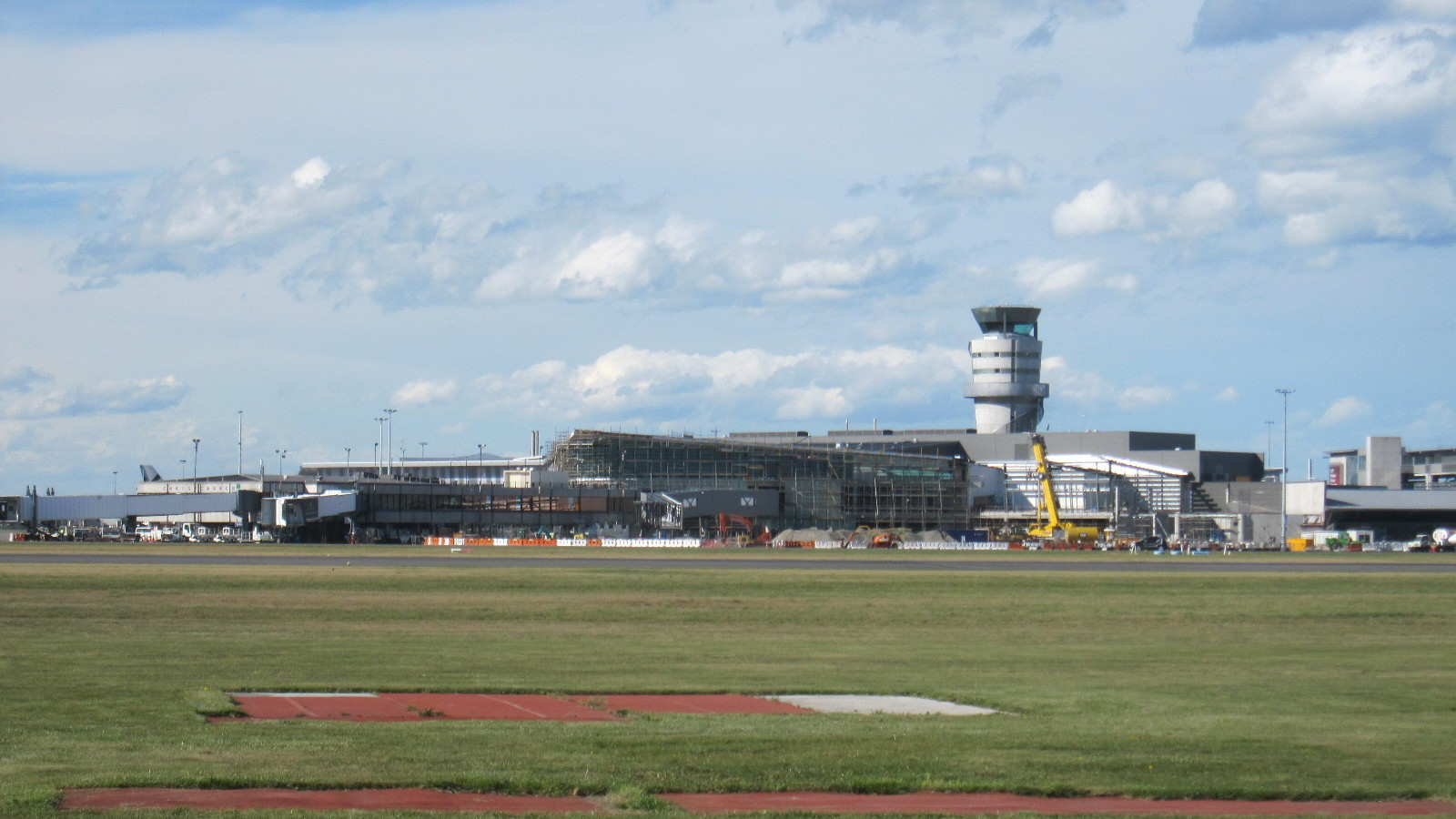 View of Christchurch Airport's new Domestic terminal nearly finished